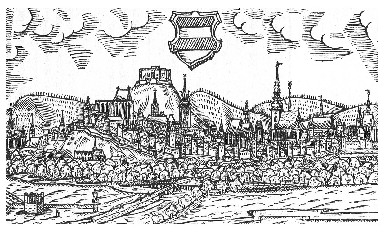 City of Brno, 1591